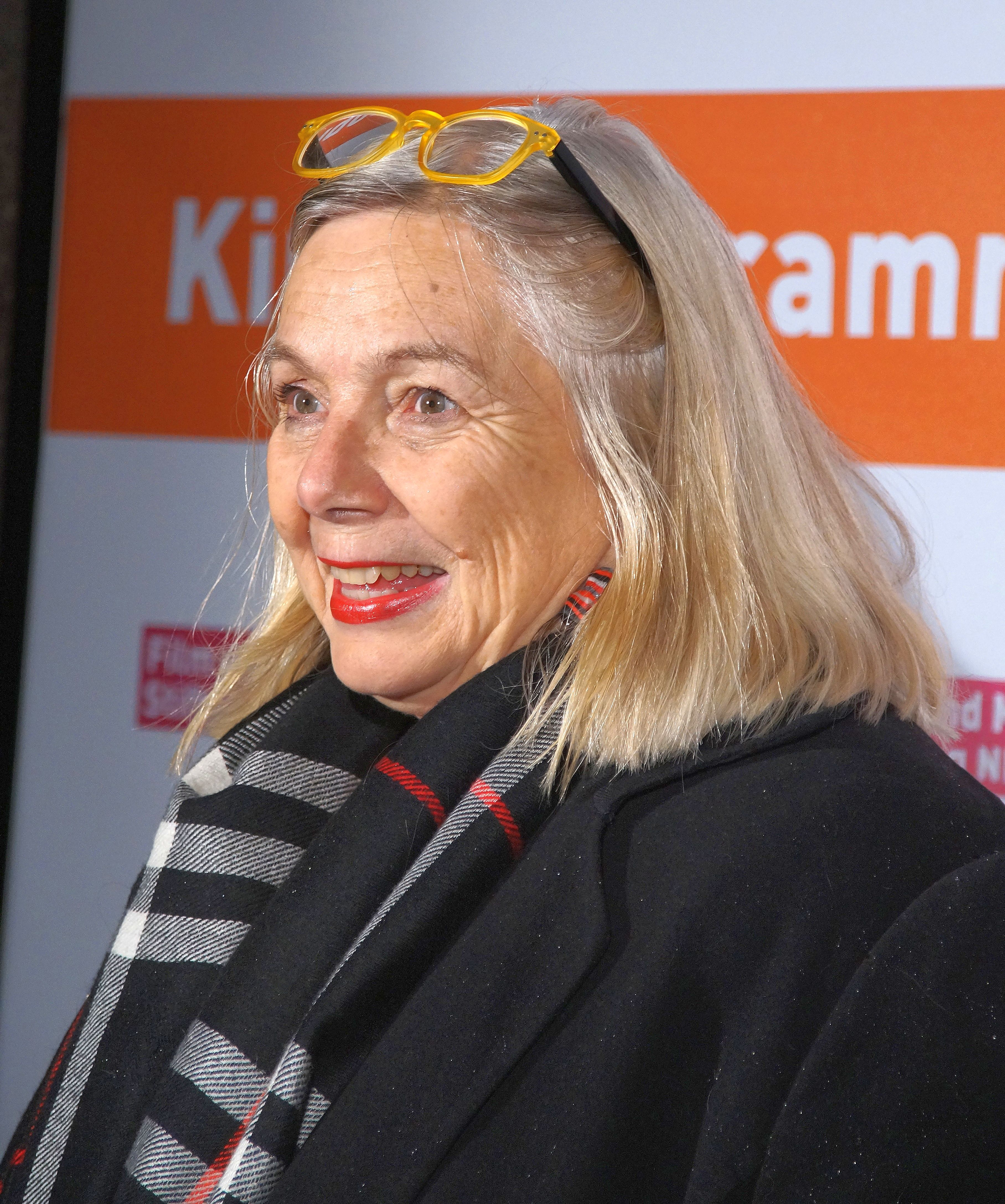 Uschi Reich beim NRW Kinoprogrammpreis, November 2016, Köln.